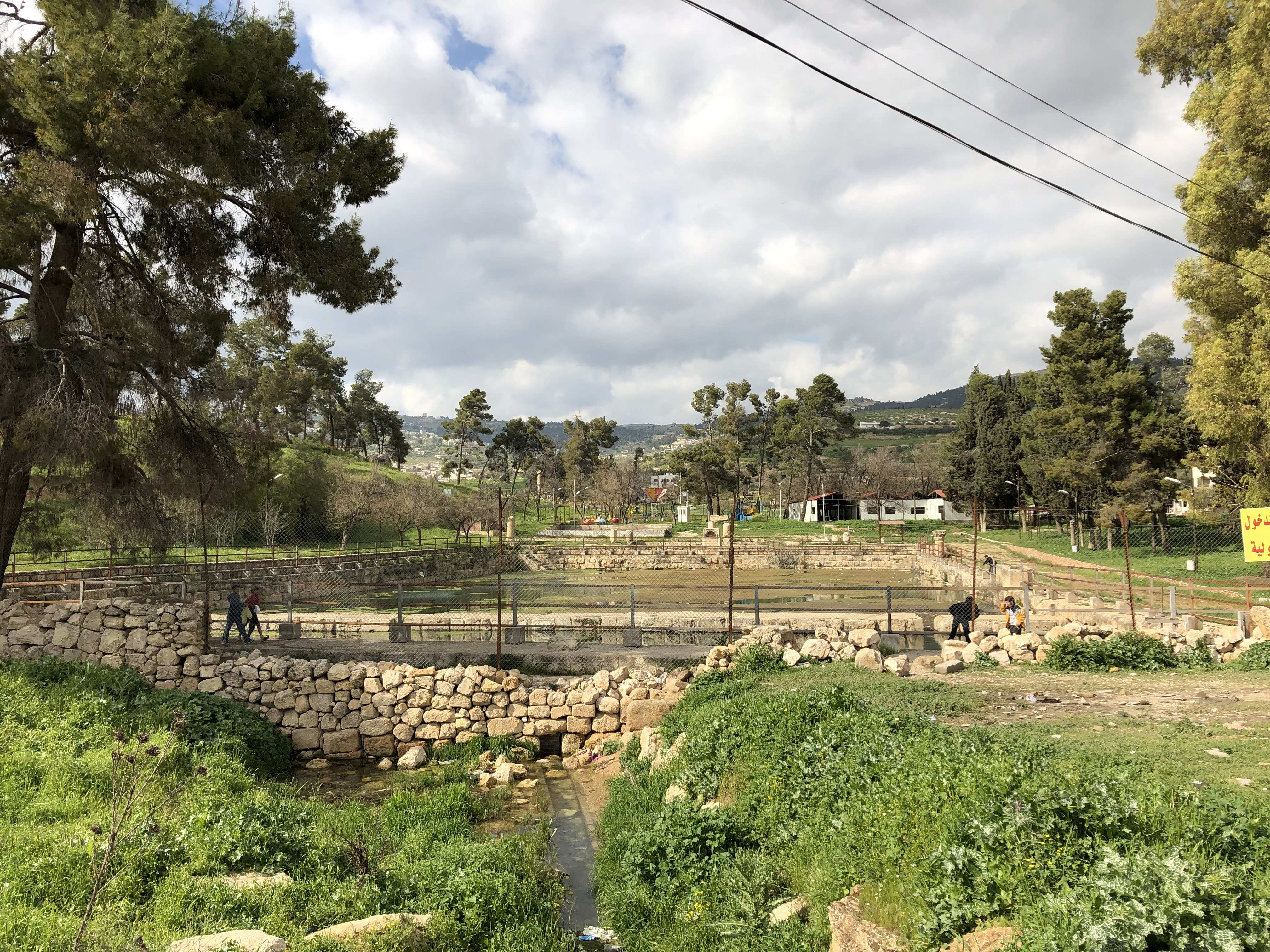 Birketein reservoir